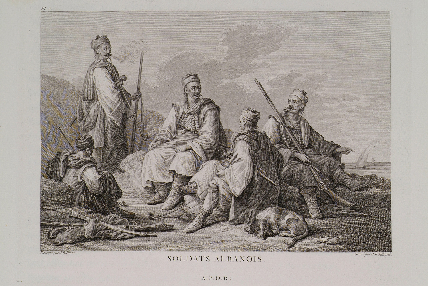 Marie-Gabriel-Florent-Auguste Comte de Choiseul-Gouffier. Voyage pittoresque de la Grèce. Paris, J.-J. Blaise M.DCCC.IX, (1782 1st volume, 1809 2nd volume, 1822 3rd volume, 1842 2nd edition)